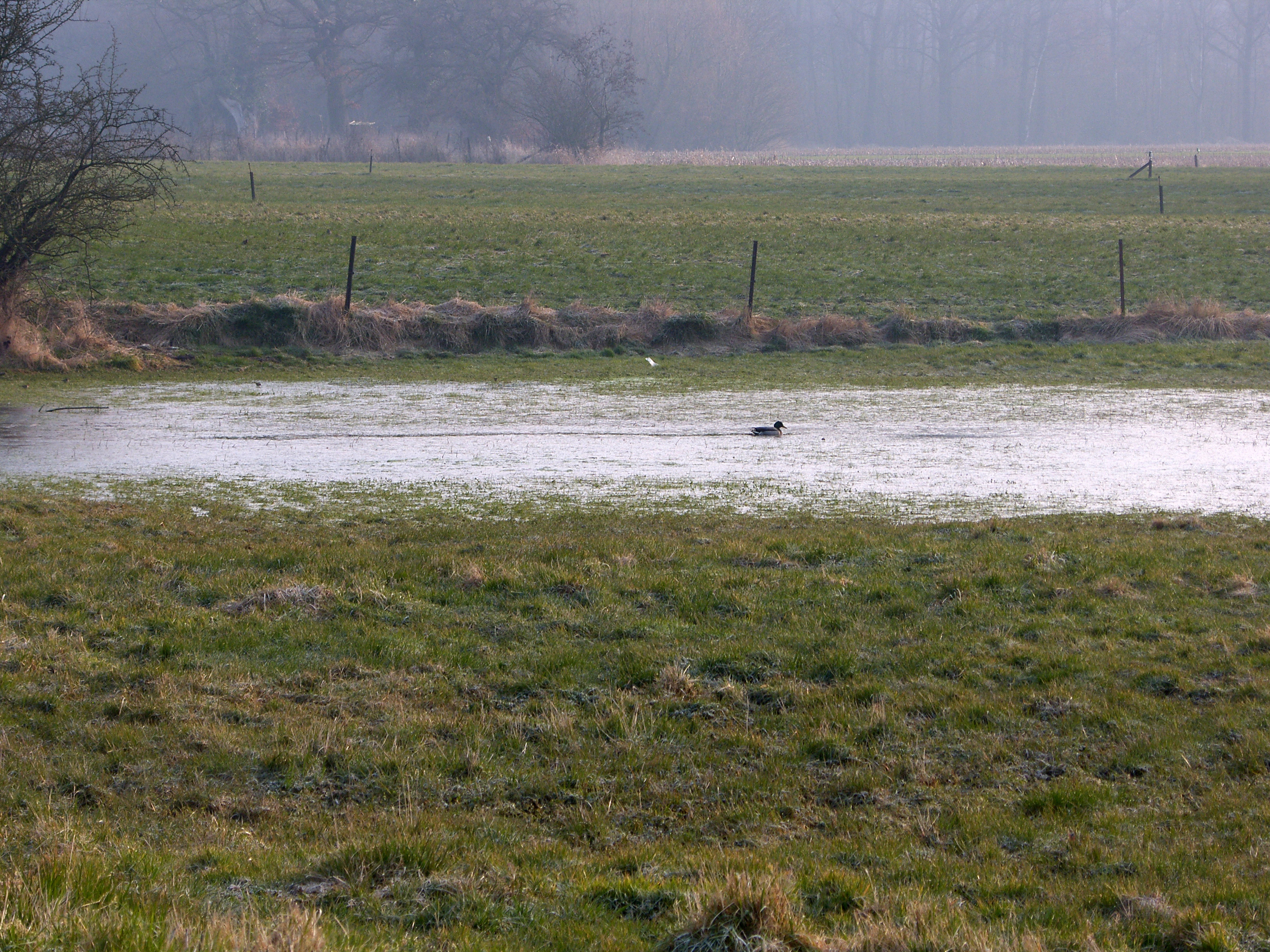 Pond in a communal meadow about 500 meters edge of the Forest of Flines-lès-Mortagne (original state, now restored, regrooved by the Regional natural parc in September 2014, run by an NGO ("Landscape and environment") Rem. Another one exists near the Belgian side (another temporary pond) marked by a strong difference in water levels between winter and summer.